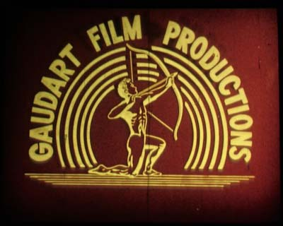 Still taken from the 1950ties children TV program "The Fables of La Fontaine"